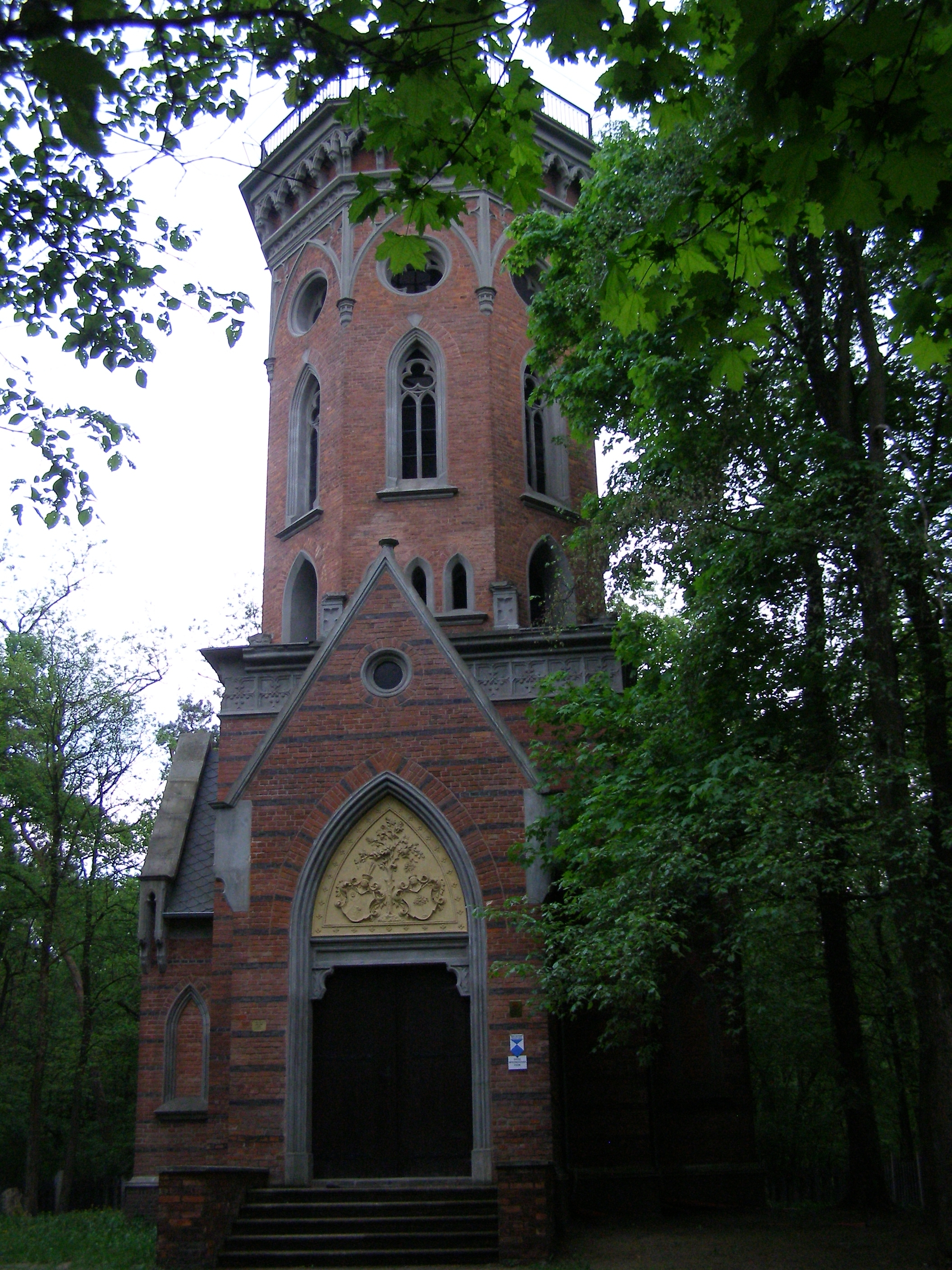 Szreniawa - Bierbaum mausoleum